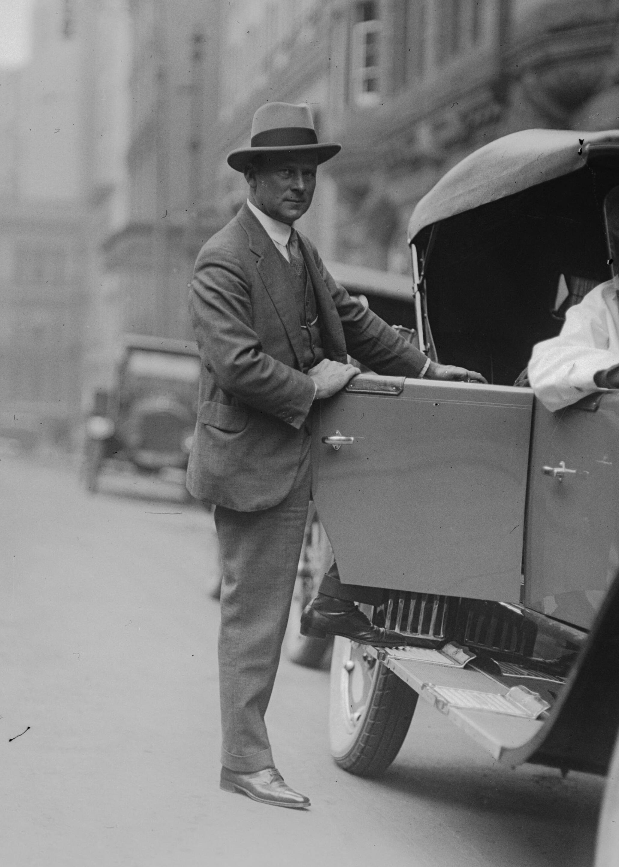 Australian politician Michael Bruxner, leader of the Progressive Party of New South Wales